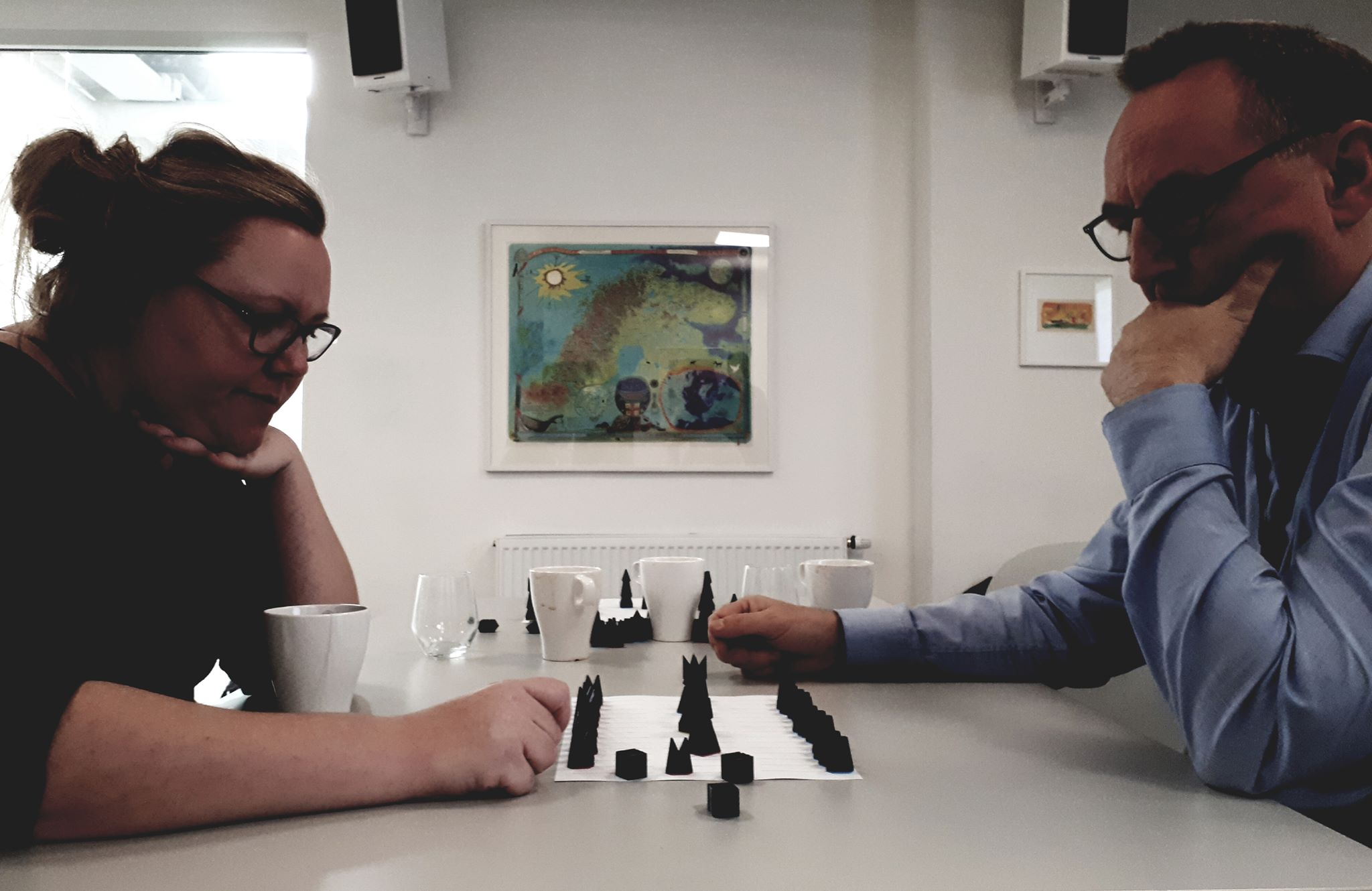 A semi final match at the Oslo 2018 Sáhkku Cup. Frida Tømmerdal vs. Jan Gunnar Furuly. In the background, map of Sápmi by Hans Ragnar Mathisen.